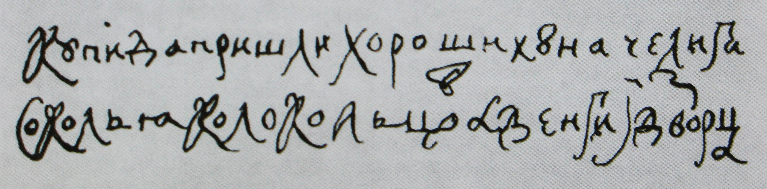 A request to buy bells for hunting falcons by tsar Aleksei Mikhailovich Давнѣрусскiй: Кꙋпи да пришли хорошихъ на челига сокольꙗ колокольцоⷡ, а денги из дворца